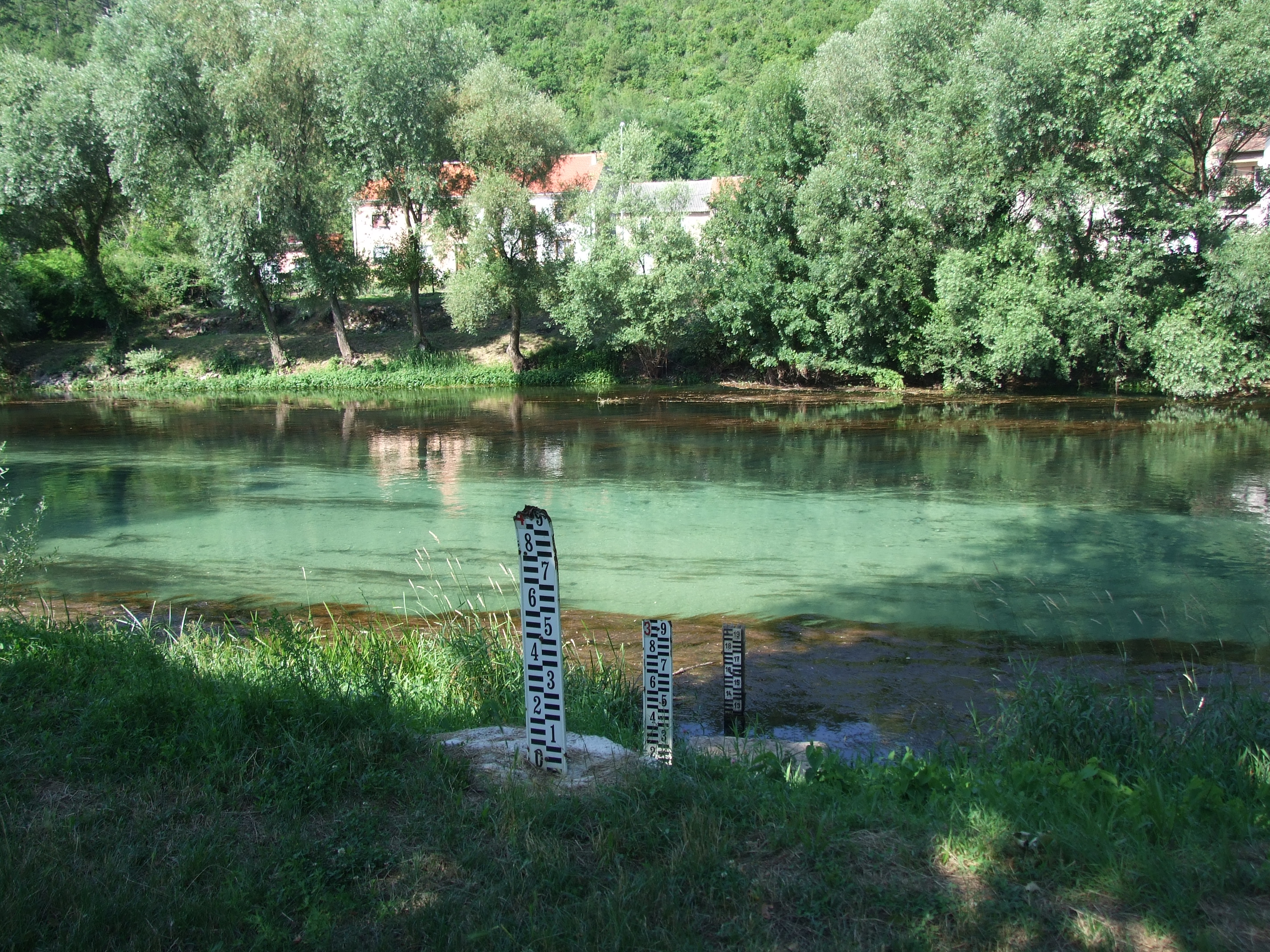 Knin, Croatia.